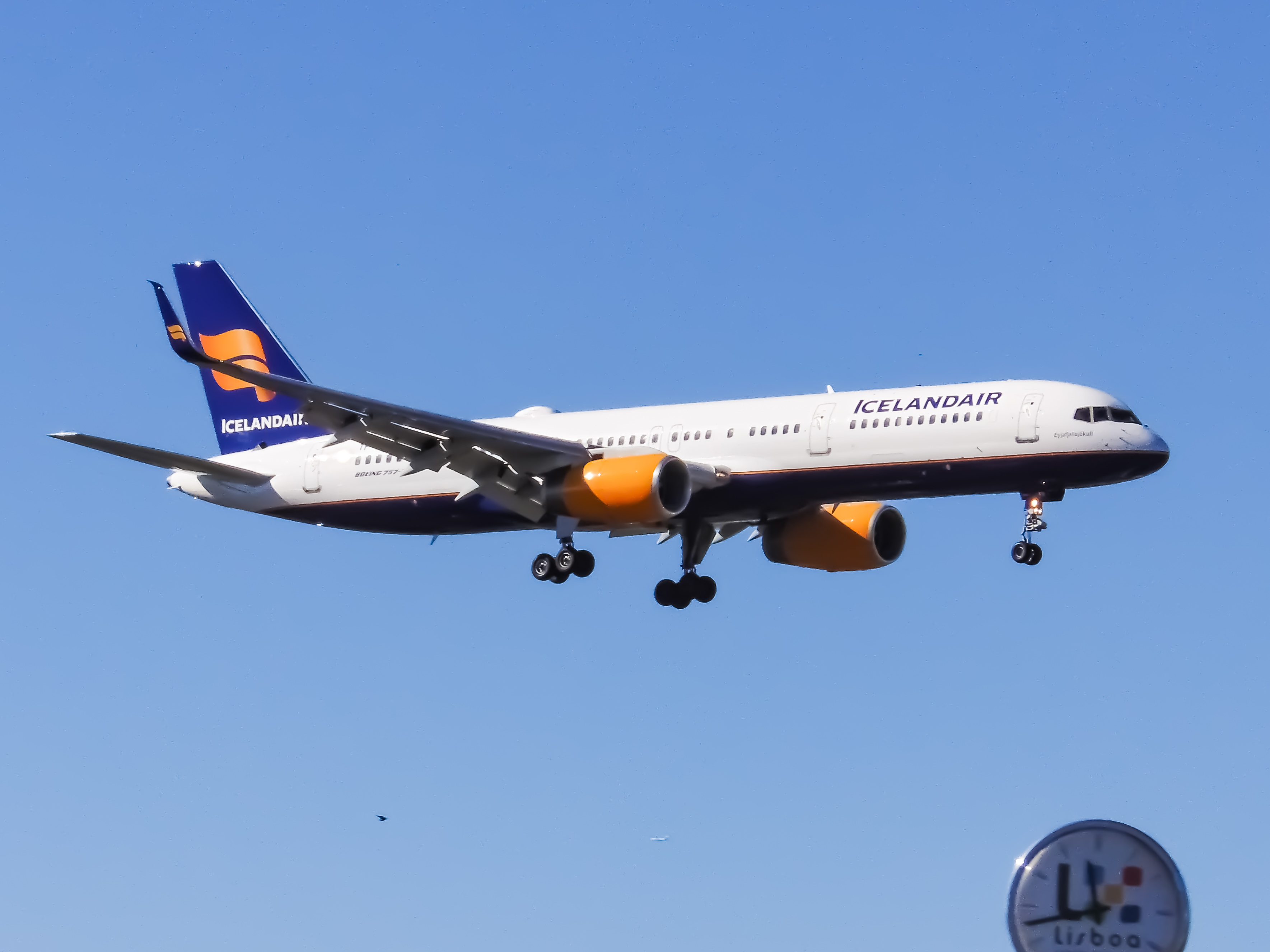 TACV with the colours of Icelandair landing at Lisbon Airport.